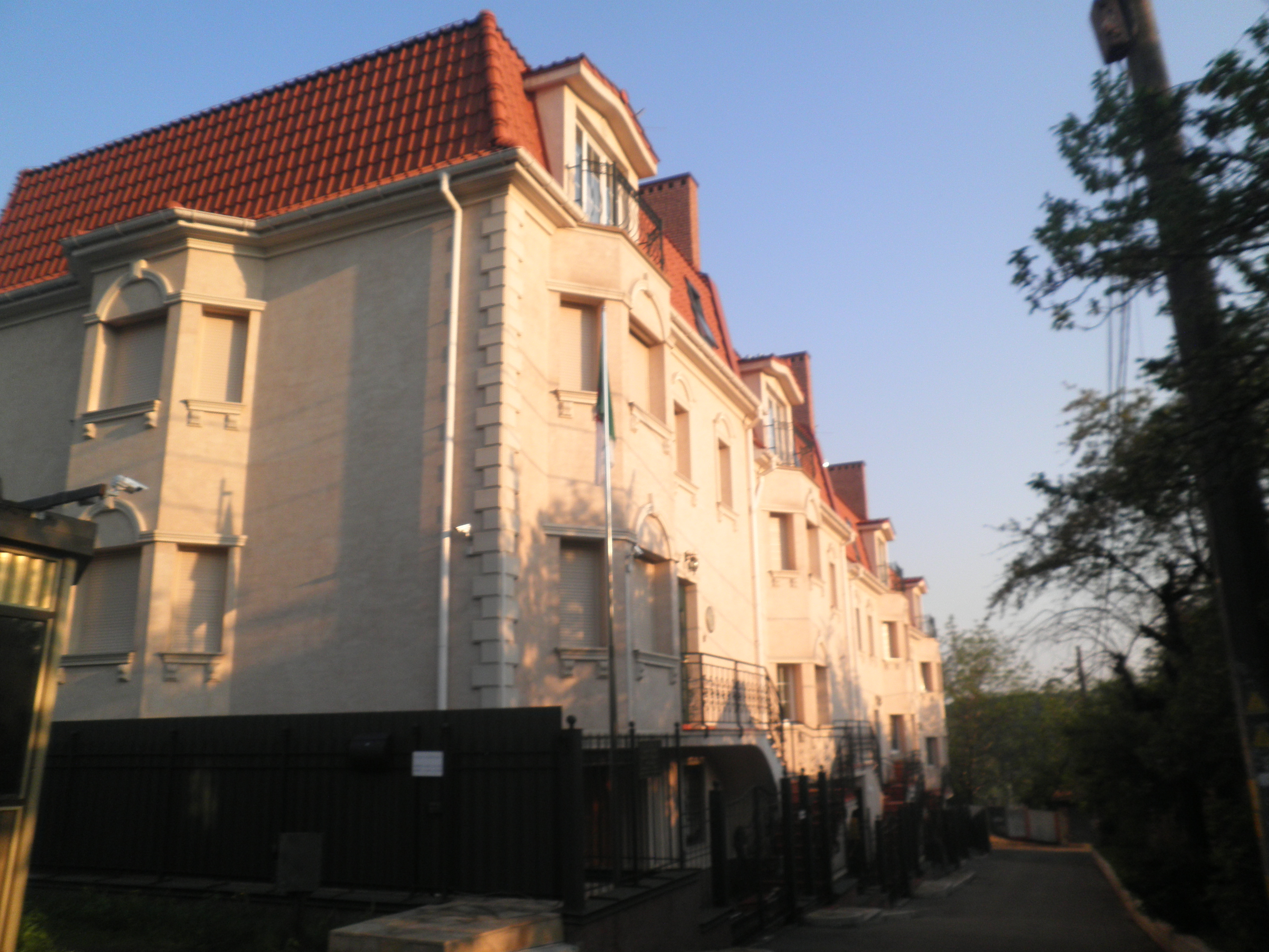 Embassy of Algeria in Kyiv.jpeg